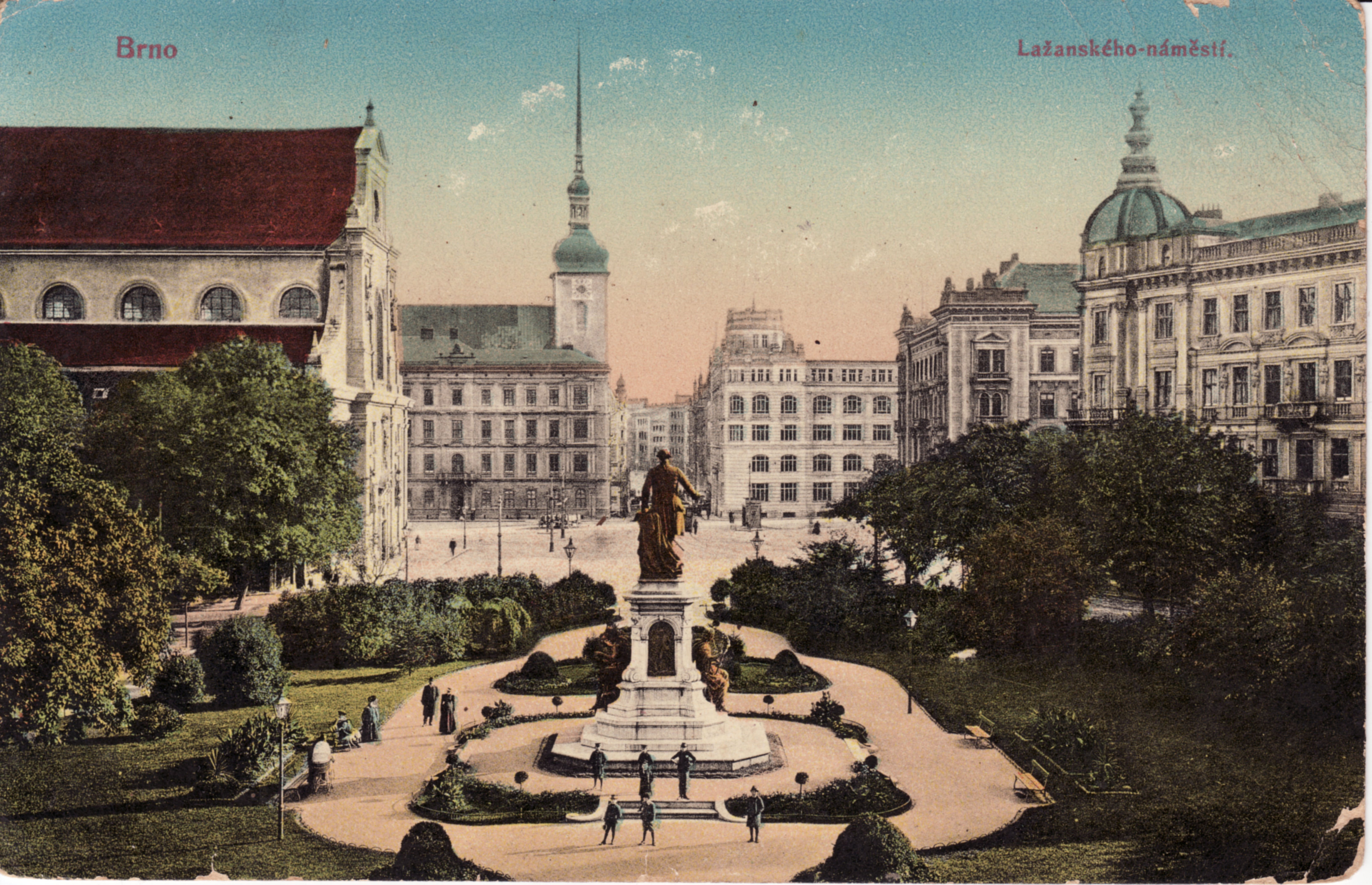 Josef II. Monument